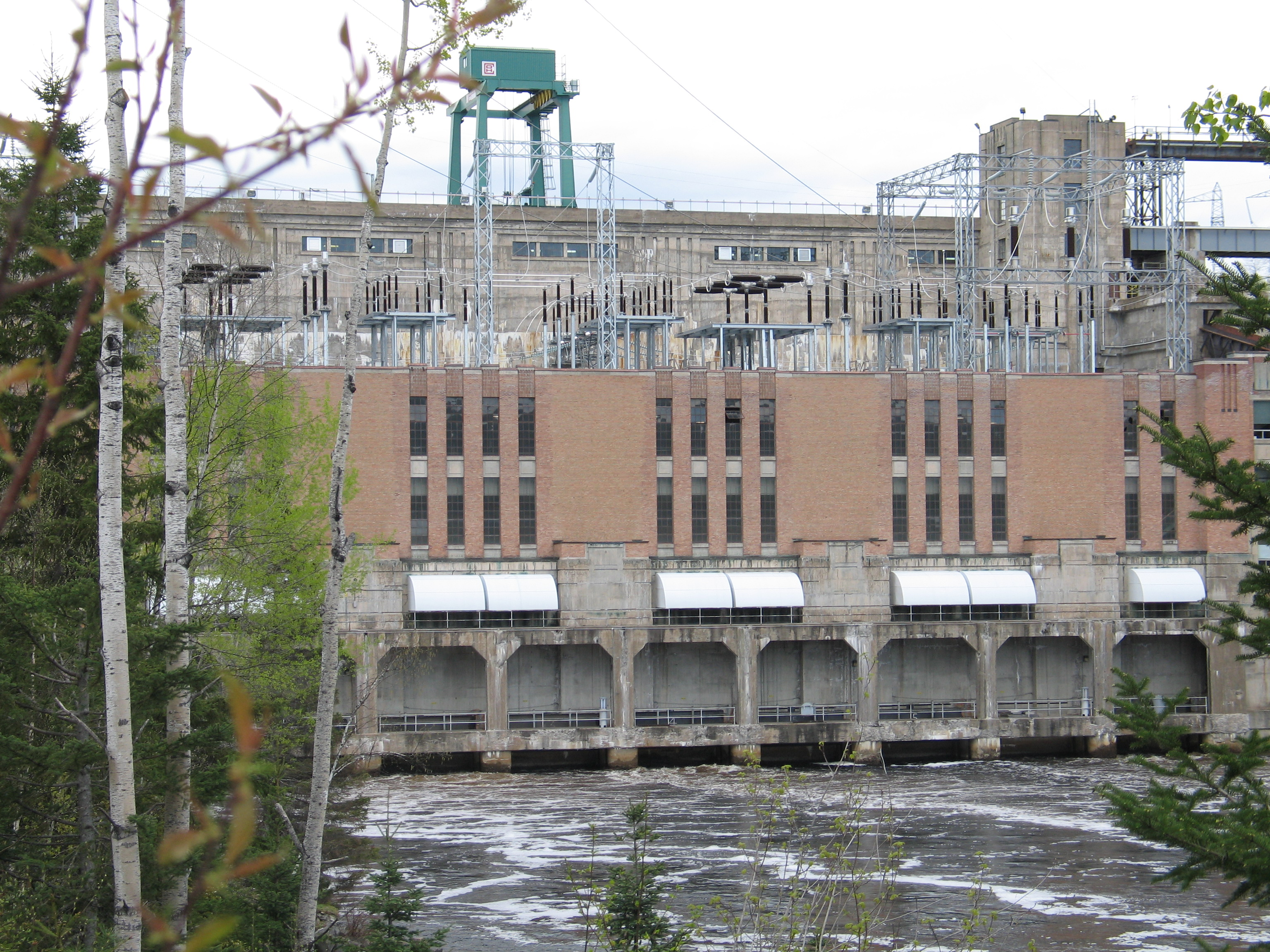 Hydro-Québec's Rapide-Blanc generating station, north of La Tuque, Quebec. This 204-MW power station has been inaugurated in 1934.